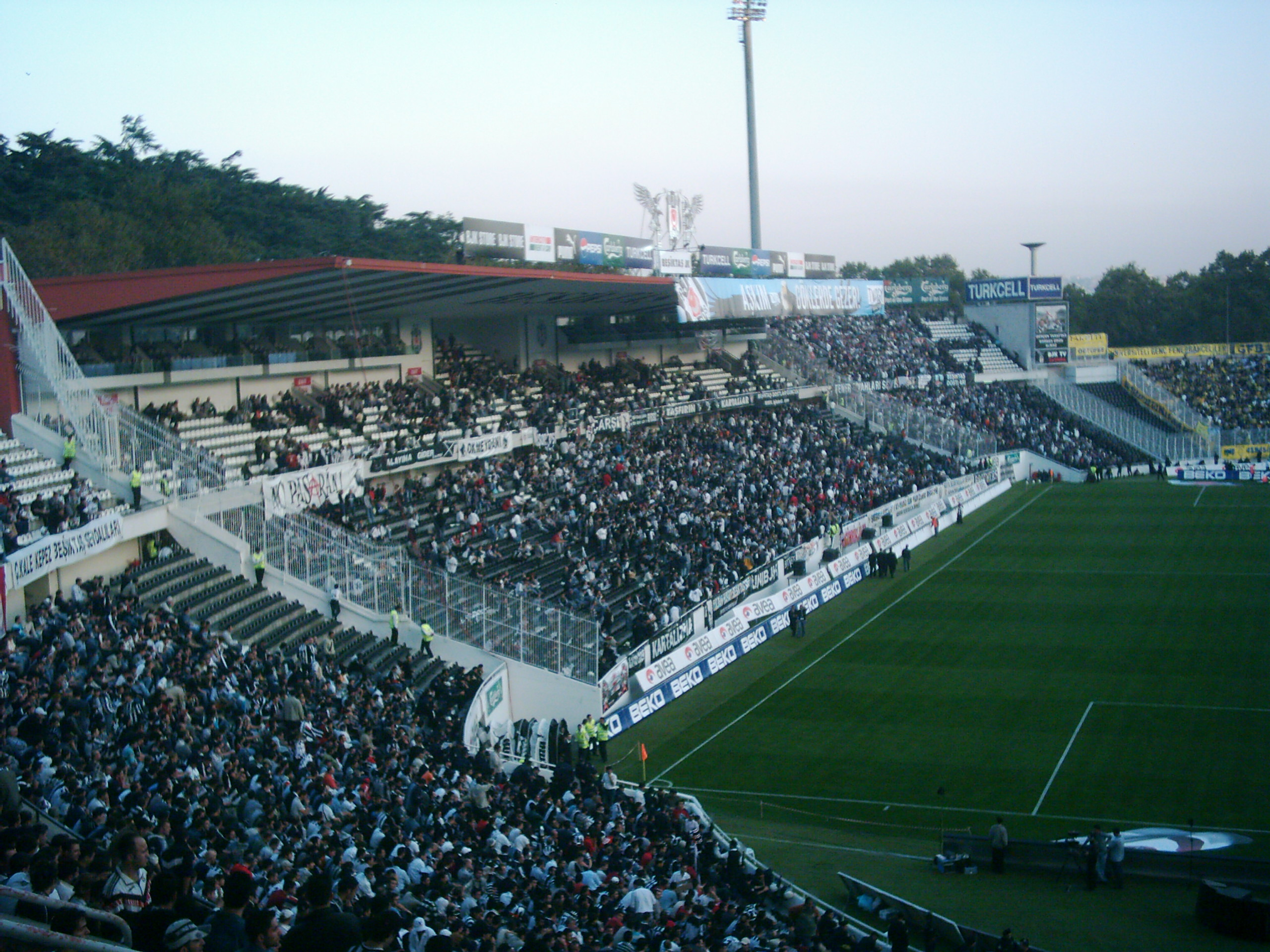 TFF Turkish Süper League 2004–05 season Week 11 game between Beşiktaş J.K. (home) and Fenerbahçe S.K. on 30.10.2004 at İnönü Stadium, Istanbul; ended 2-1 in favour of home side. Goals scored by J. Carew and M. Doğan for BJK, P. van Hooijdonk for FB. In the picture "Çarşı", popular fan base of Beşiktaş could be seen as they were located at "Kapalı Stand" of the now-demolished stadium.